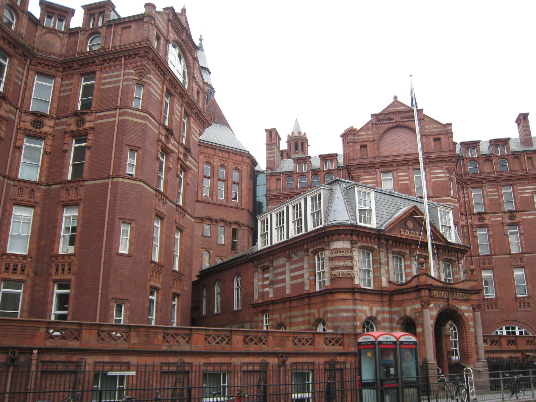 UCL building